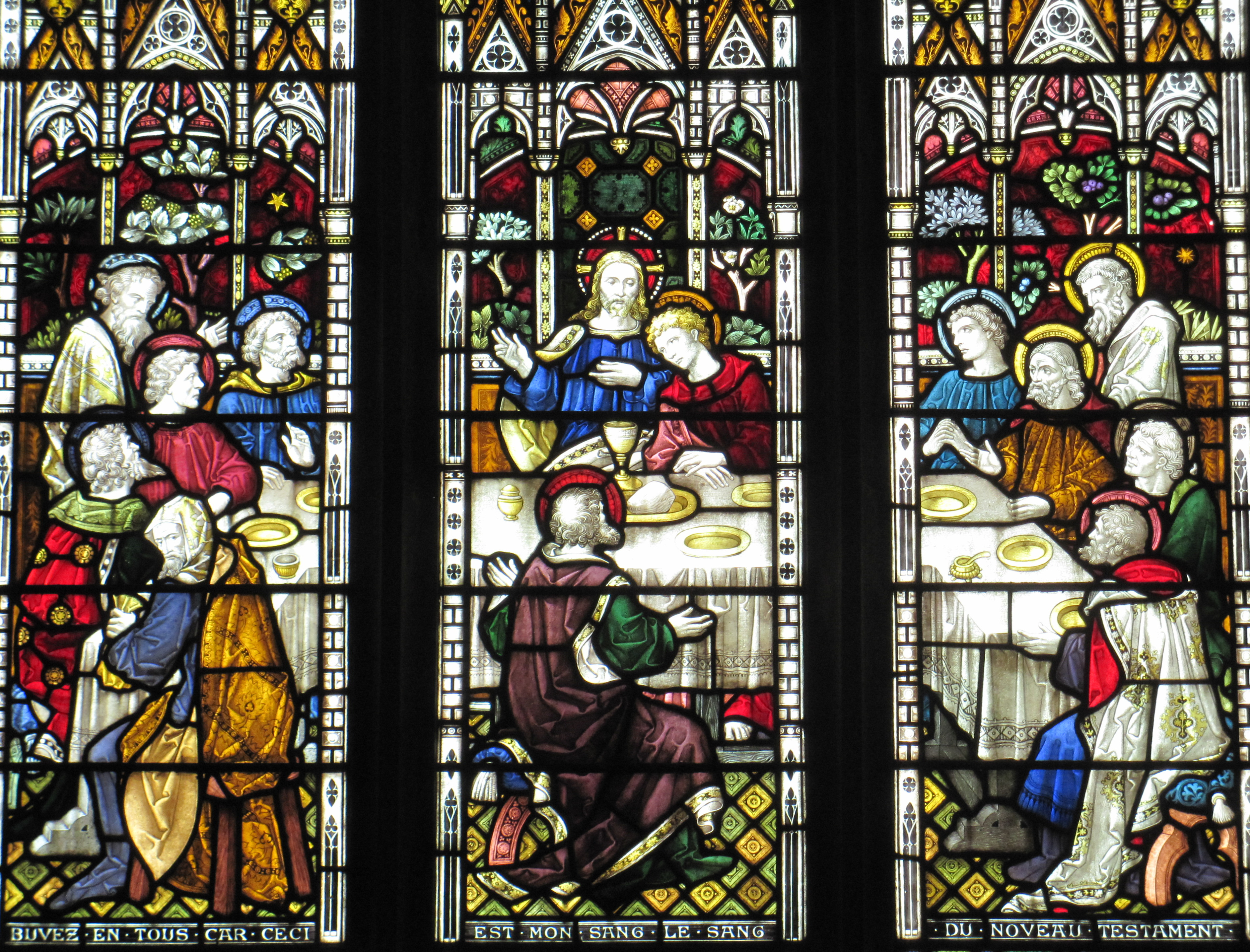 Stained glass window in Saint Brelade, Jersey Nrf: Eune vèrrinne à Saint Brélade, Jèrri